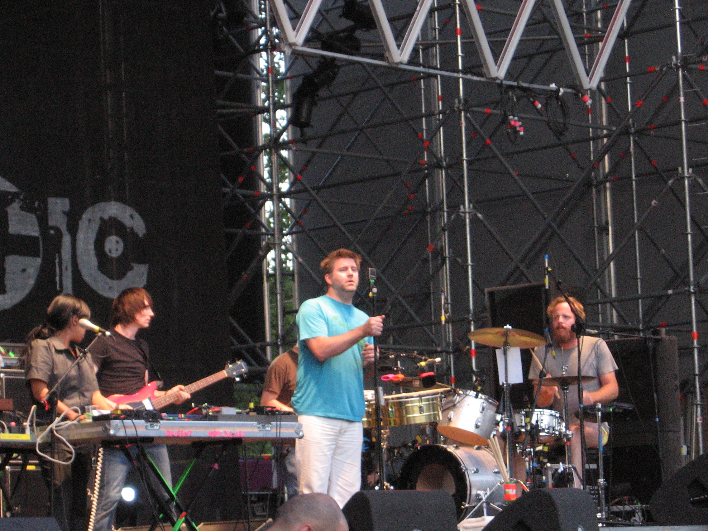 LCD soundsystem playing at Turin Traffic Festival 2007